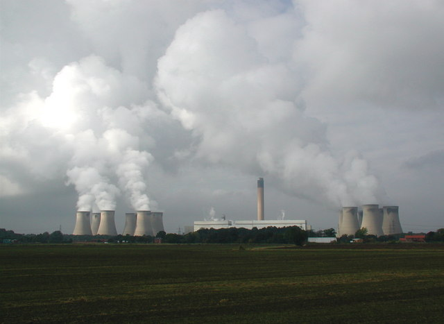 Northeast of Drax